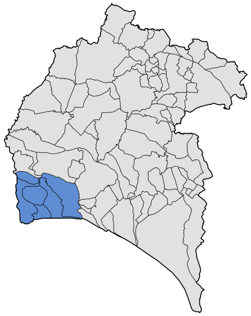 Political Map of Costa Occidetal, region of province of Huelva, Spain